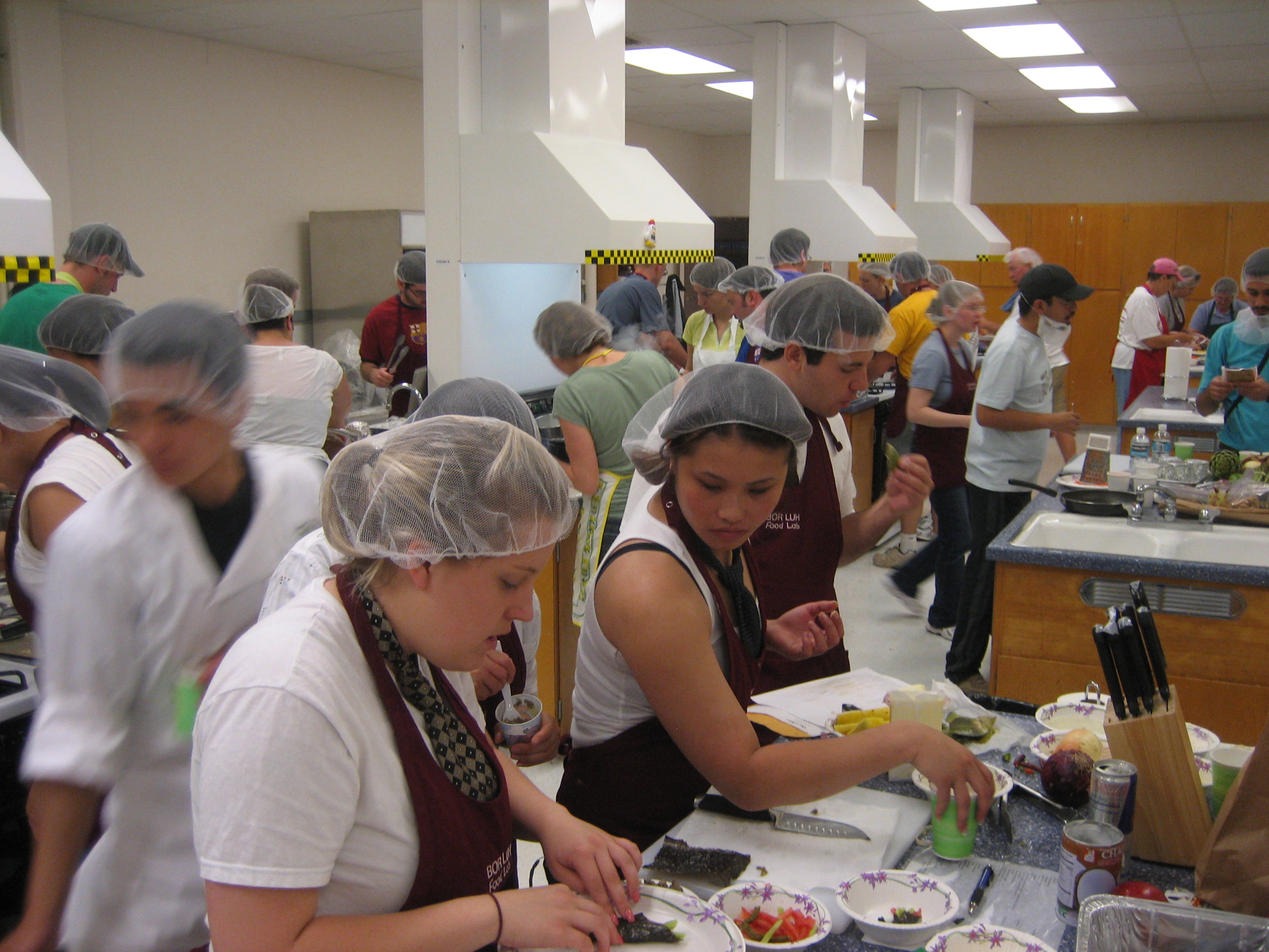 Food Science & Technology, UC Davis